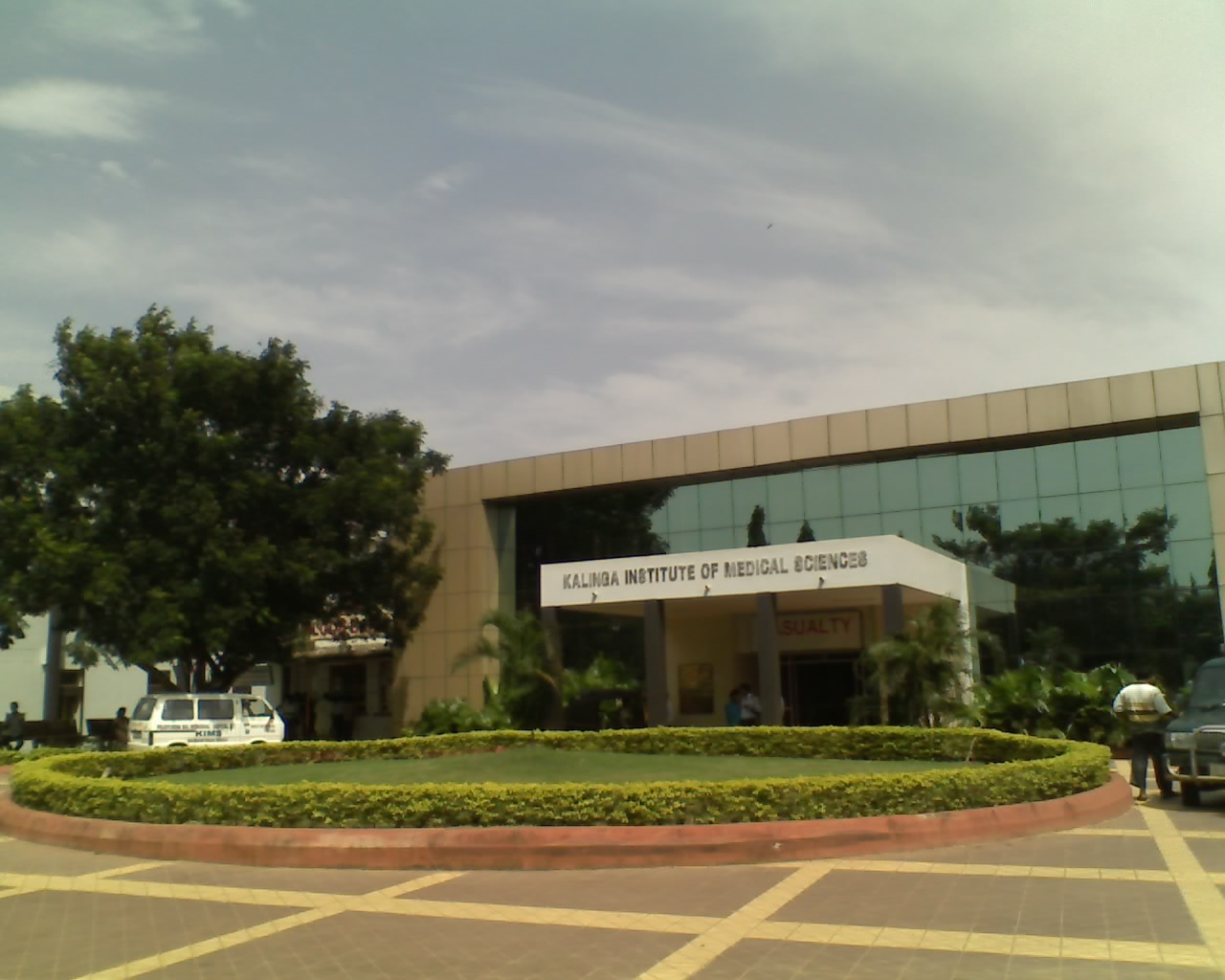 This is the Casualty Block of Kalinga Institute of Medical Sciences (KIMS), Bhubaneswar